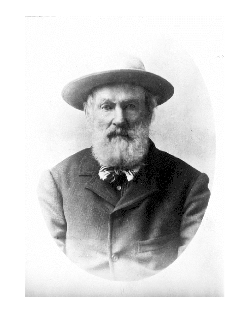 Photo taken 186? Photograper Unknown BC Archives #A-01144 [1]